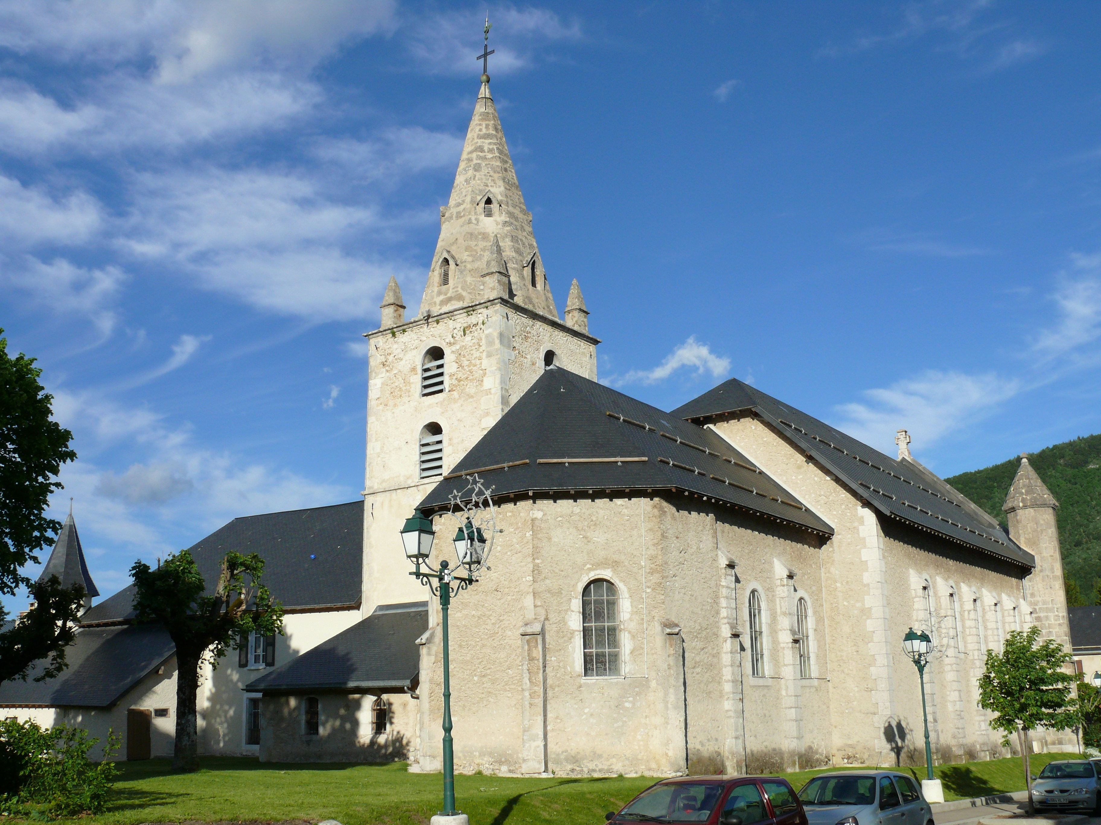 Churchs Saint-Barthélémy. We can see: the nave (late 1790s and early 1800s), the bell tower (late 1590s and early 1600s), the clergy house and the sacristy (late 1790s and early 1800s) with an arcade (late 1590s and early 1600s), a turret (late 1590s and early 1600s) who says a privilege.